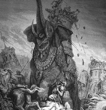 The Death of Eleazar (1 Macc. 6:33-46)